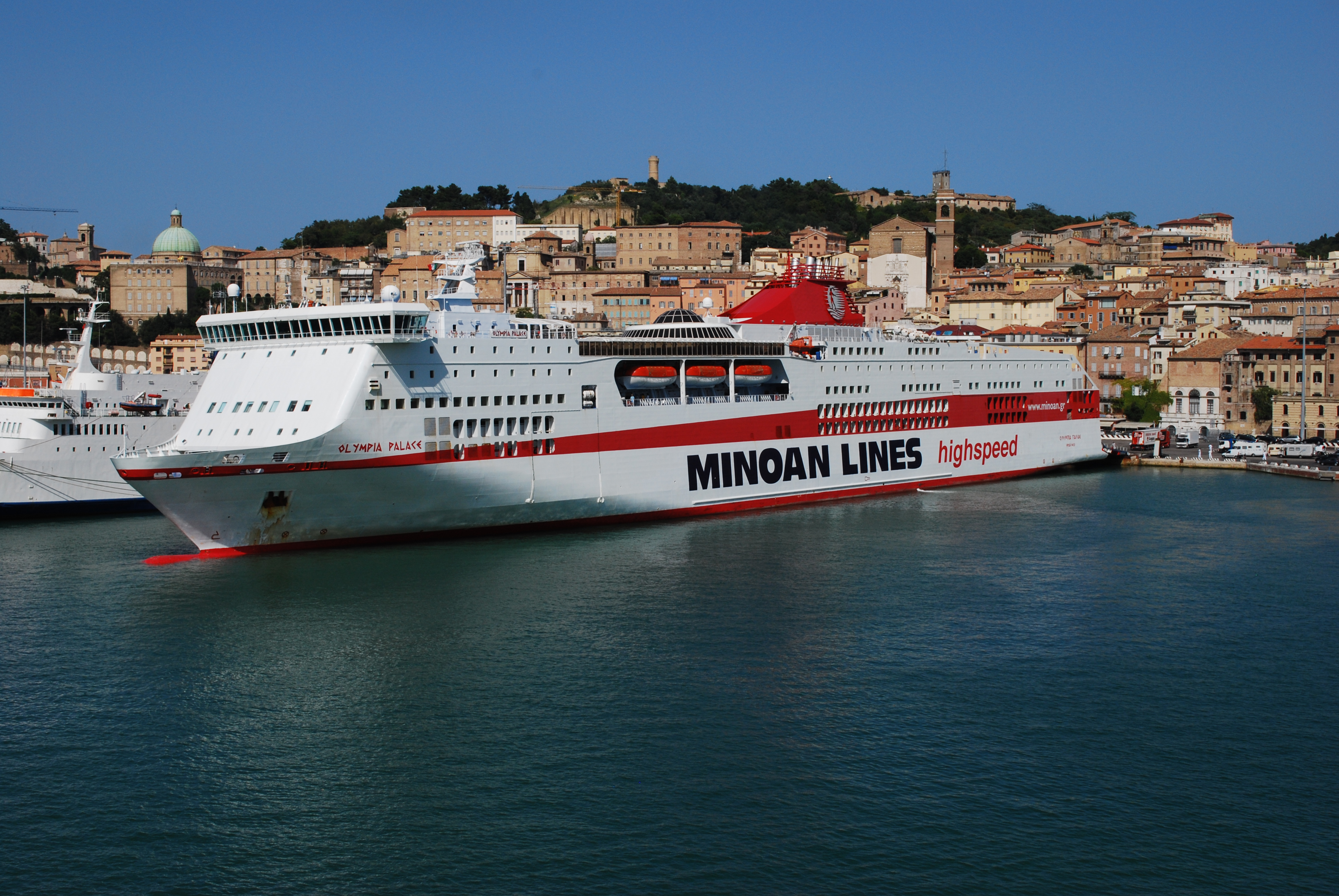 "Olympia Palace" of Minoan Lines in Ancona (Italy).